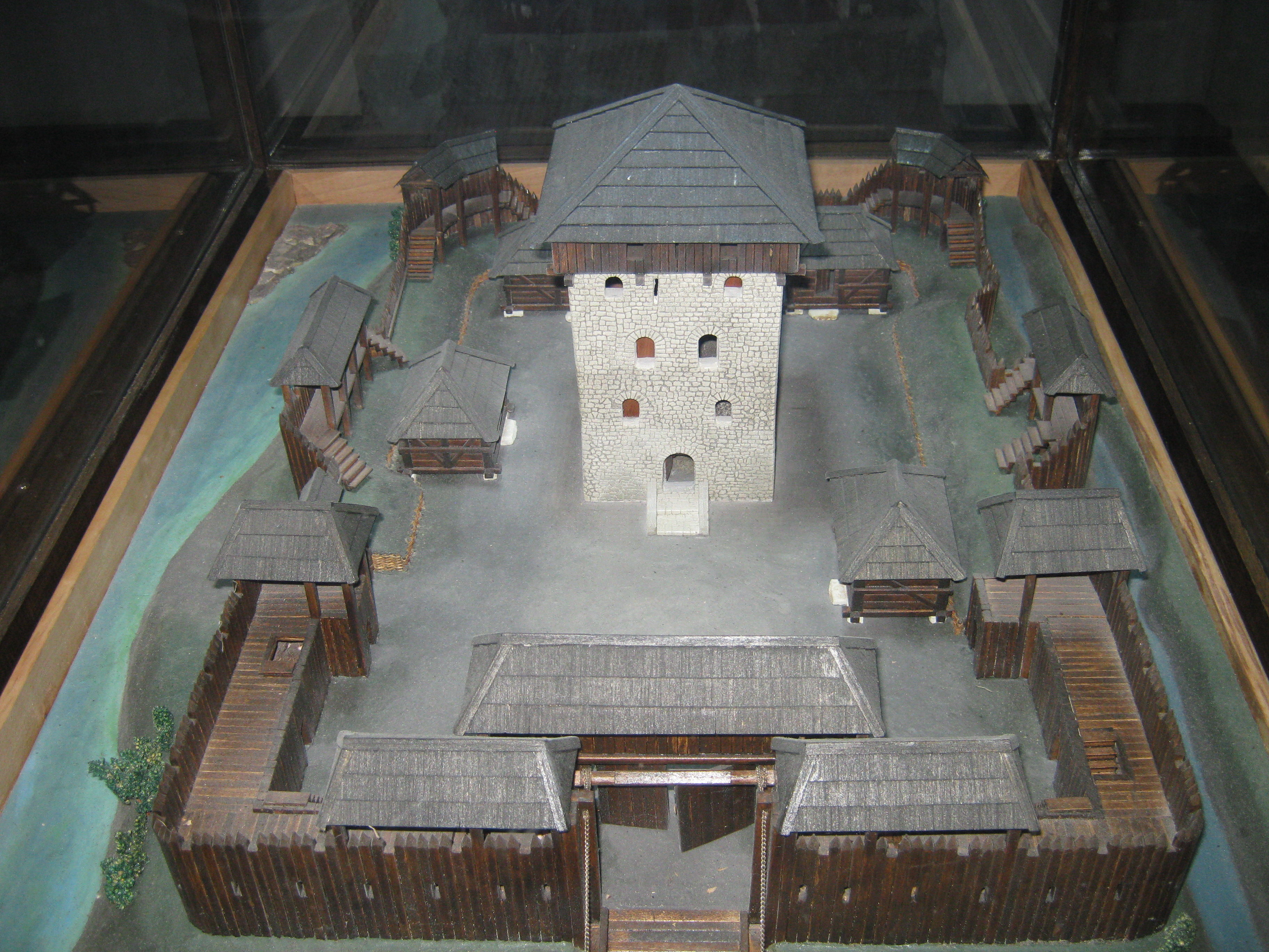 Vitkovića Tower and Fortress by model